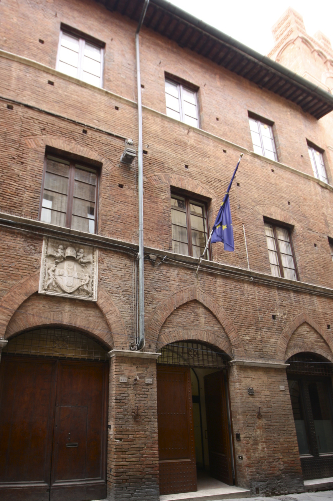 Palazzo Marsili-Libelli, Via di Città, Terzo di Città, Siena, Province of Siena, Tuscany, Italy